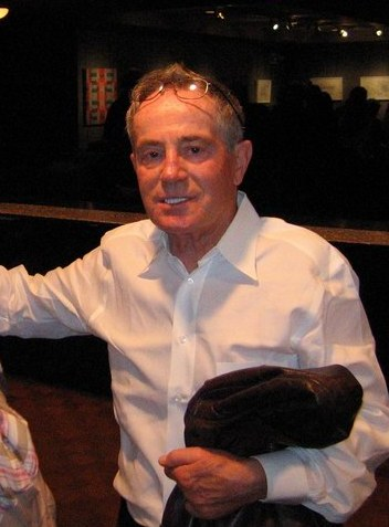 Czech actor Jan Tříska, Brooklyn Academy of Music, New York